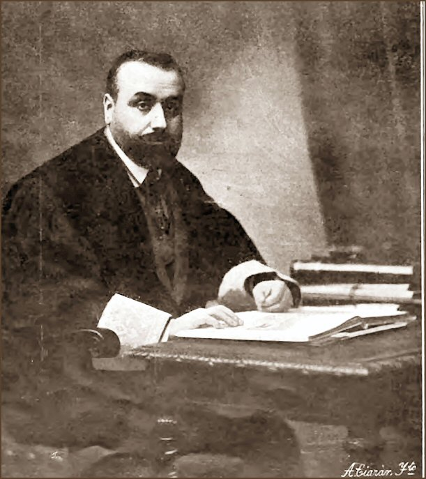 Rector Ricardo Royo Villanova